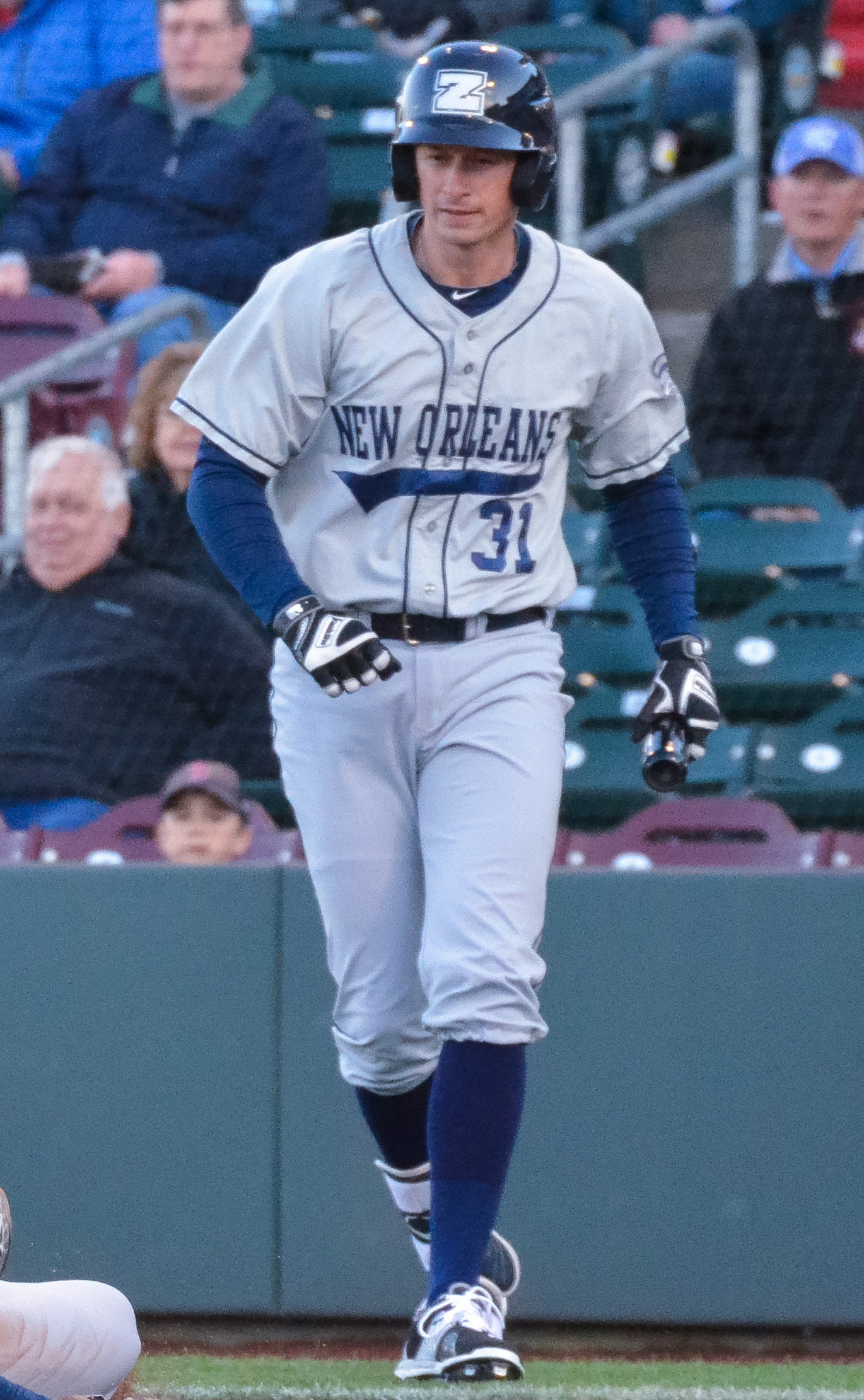 Don Kelly